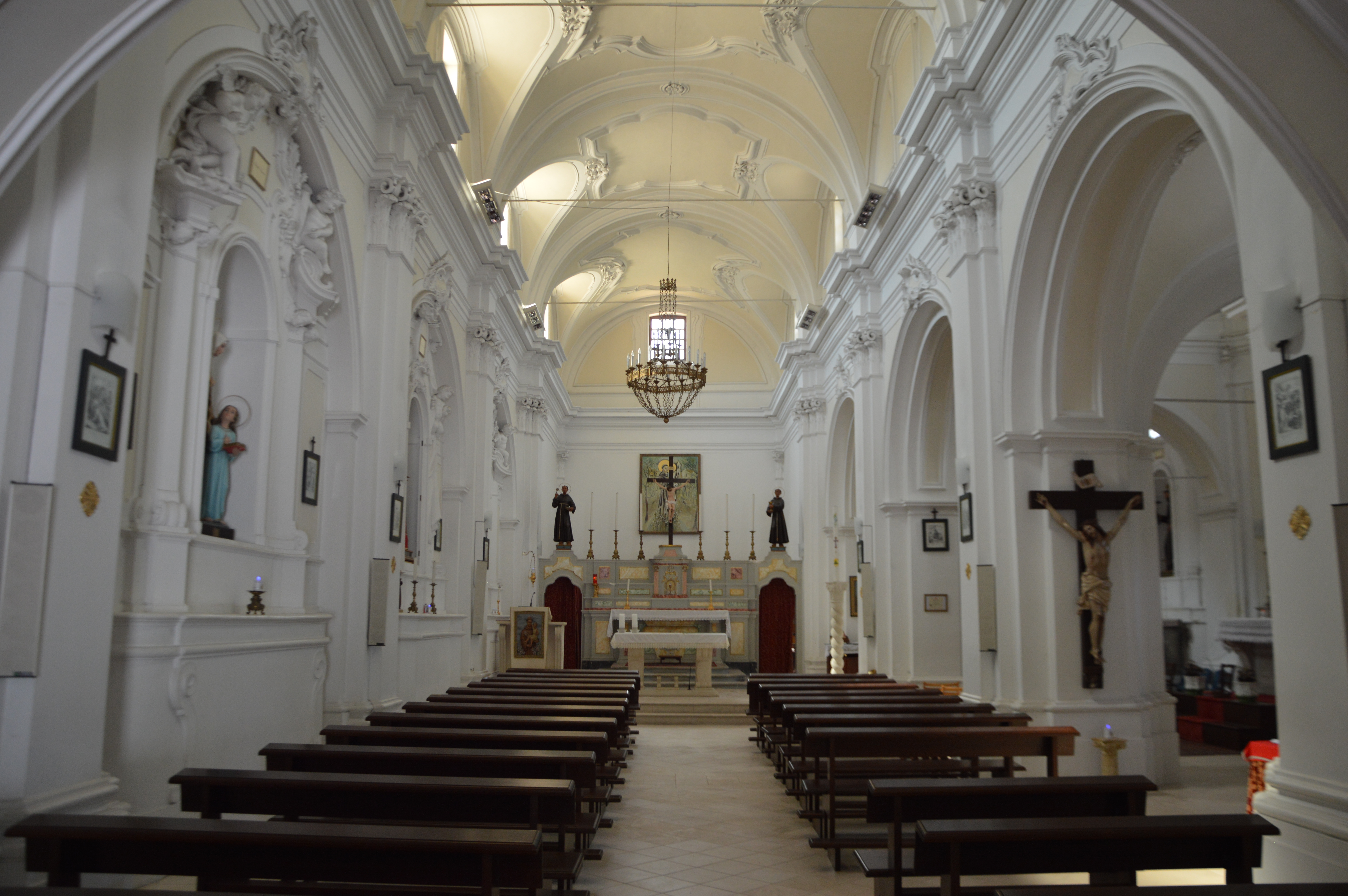 Interno chiesa